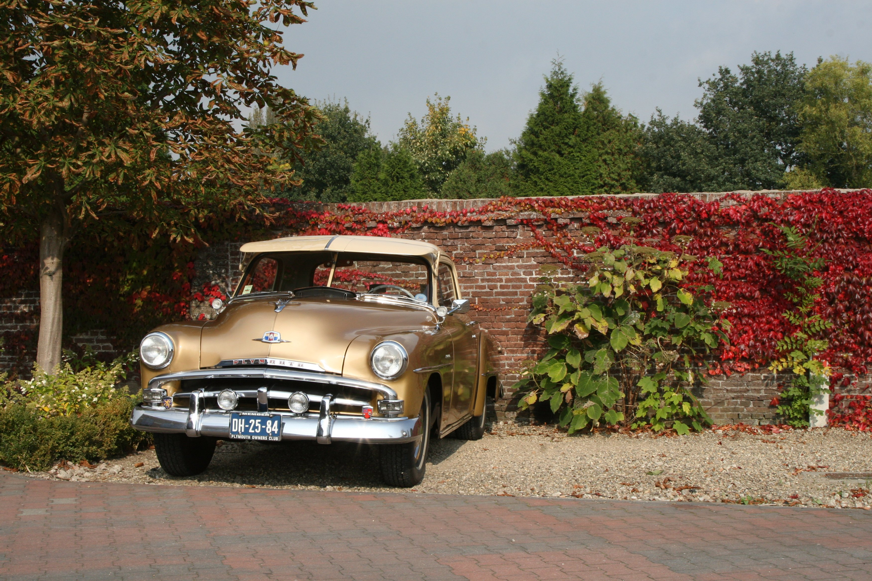 1951/1952 Plymouth Concord Three Passenger Coupe